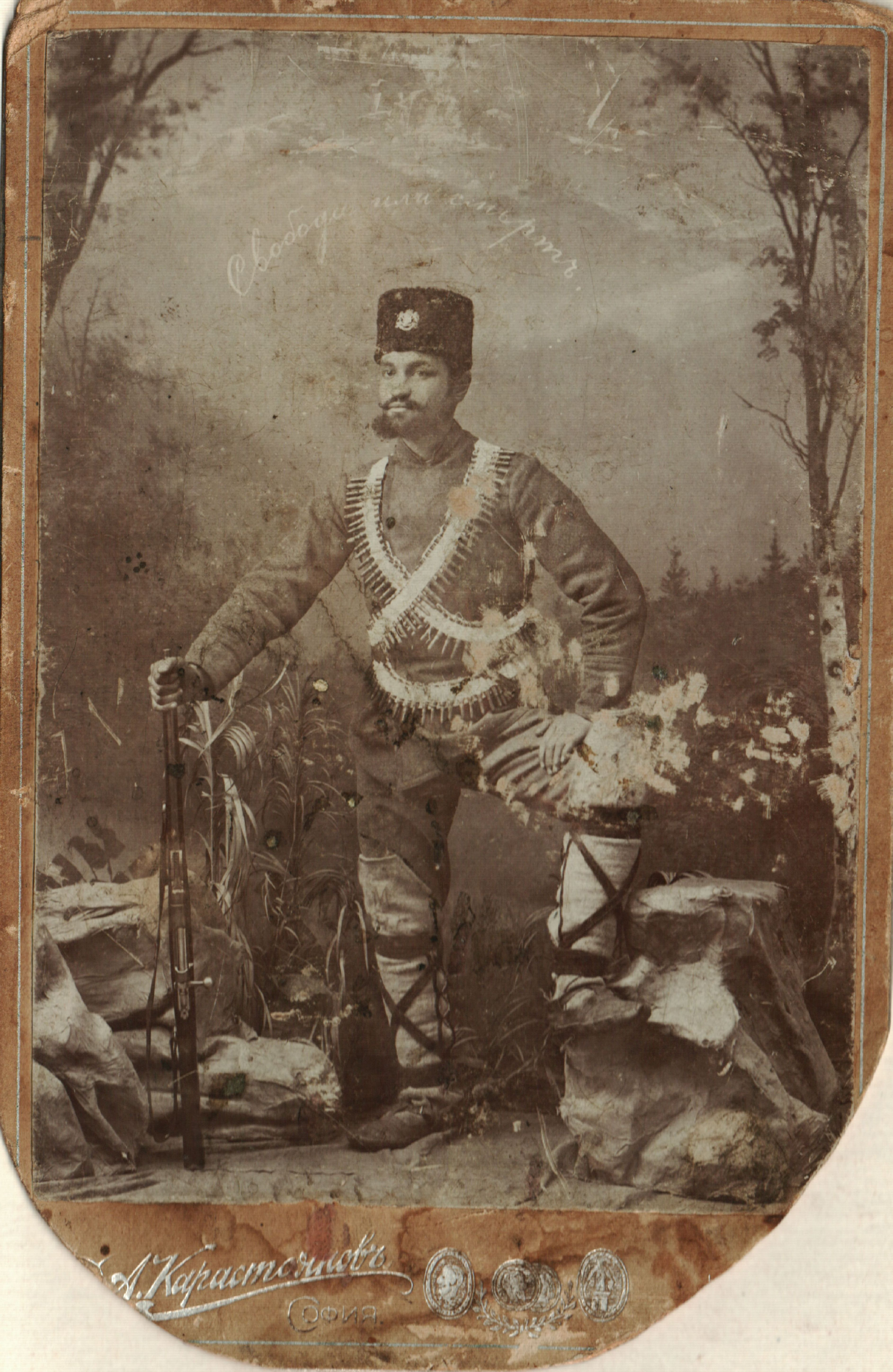 Filip Grigorov